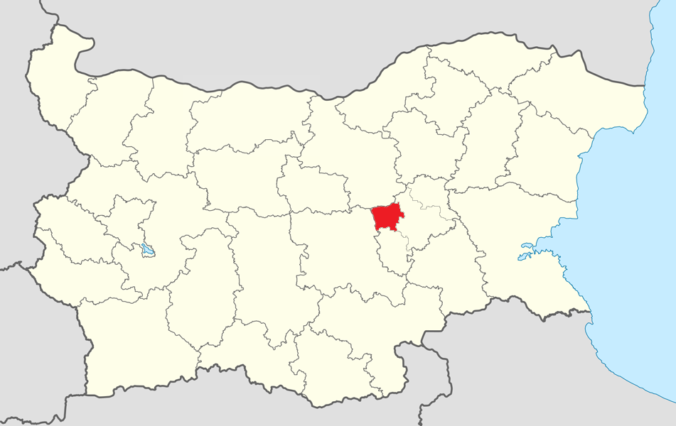 Location map of Tvarditsa Municipality within Bulgaria and Sliven Province.